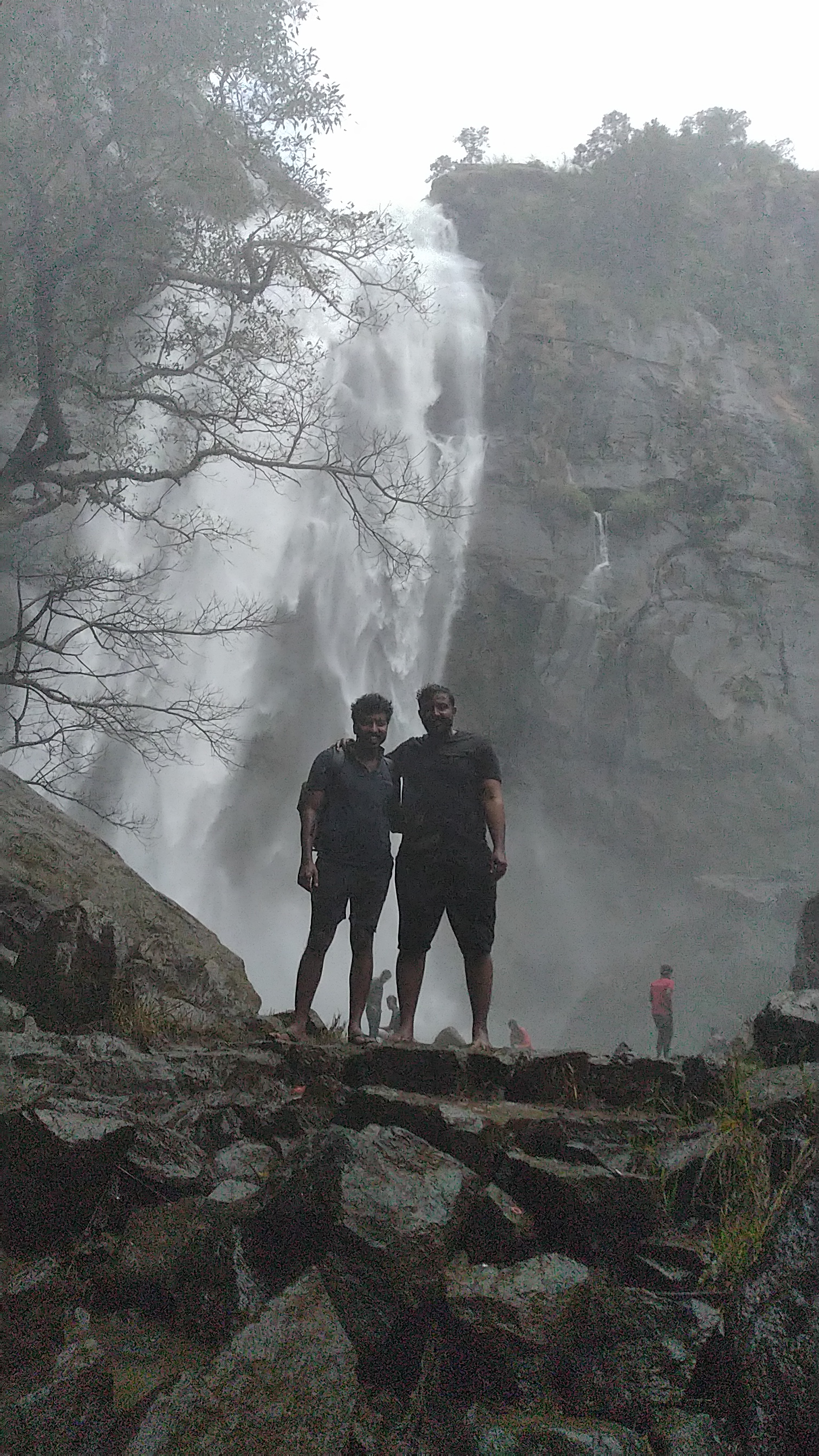 Tourists at the Agaya Gangai waterfalls on Kolli Hills, Namakkal in November 2019